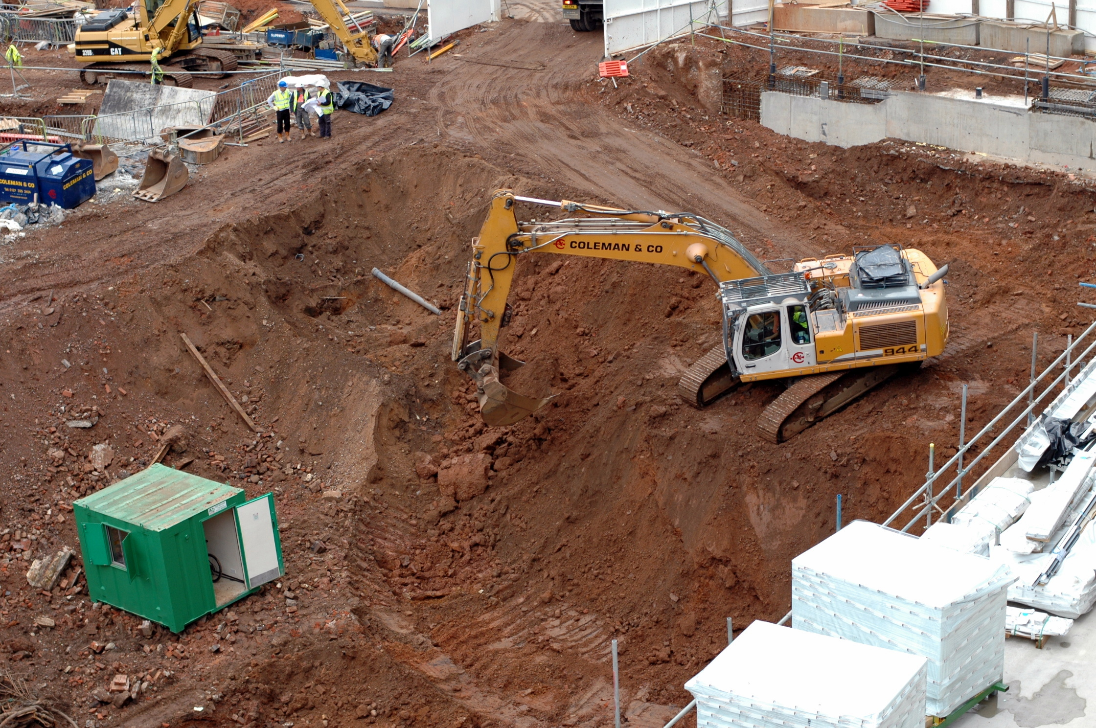 This is a view of excavation work taking place at the site of Phase 4 in the Snowhill scheme in Birmingham.